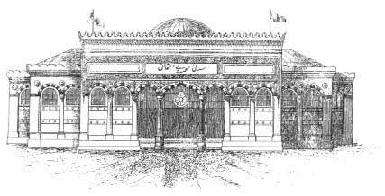 Main Hall of Ottoman General Exposition.